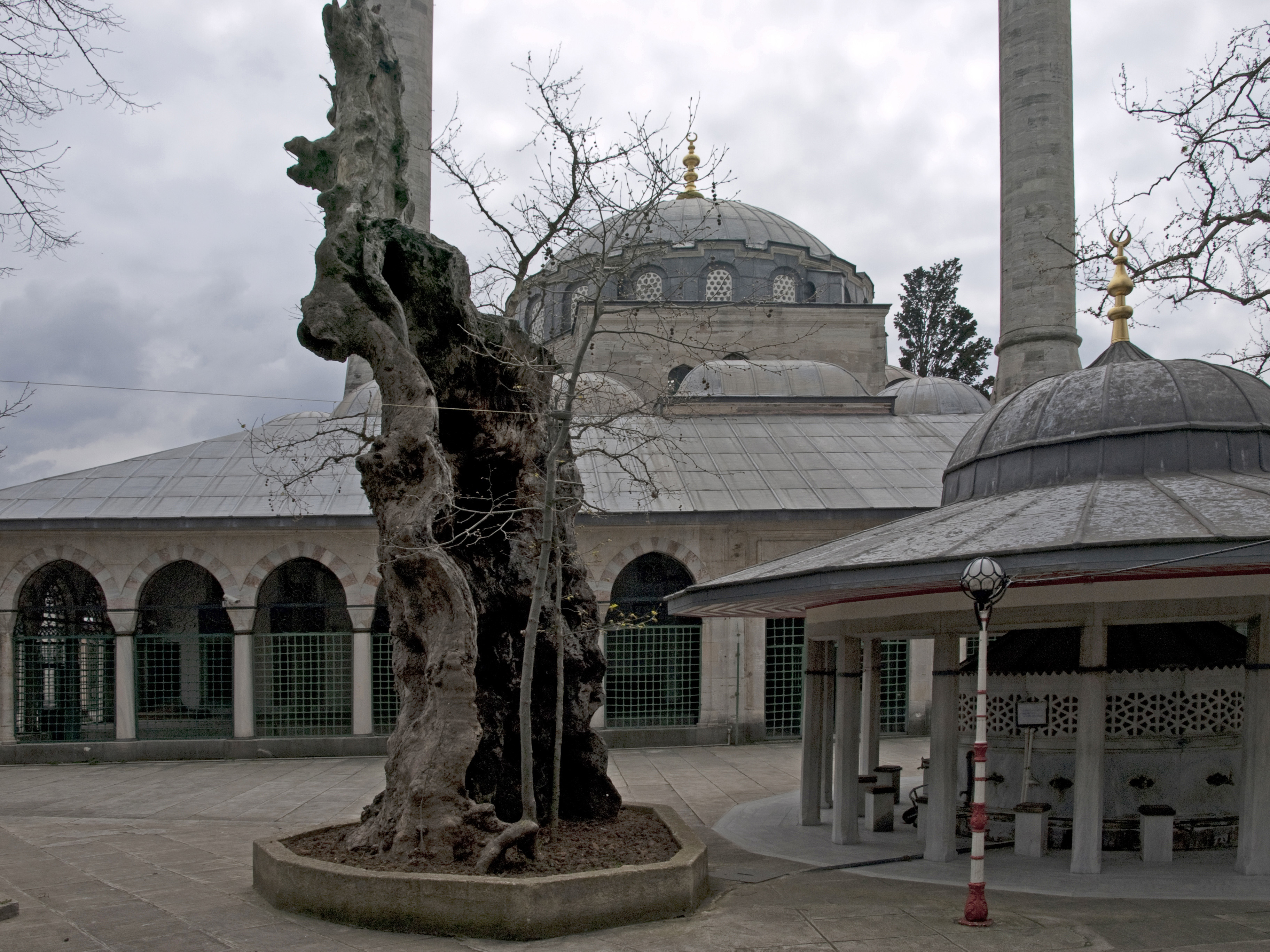 Atik Valide Mosque, Uskudar